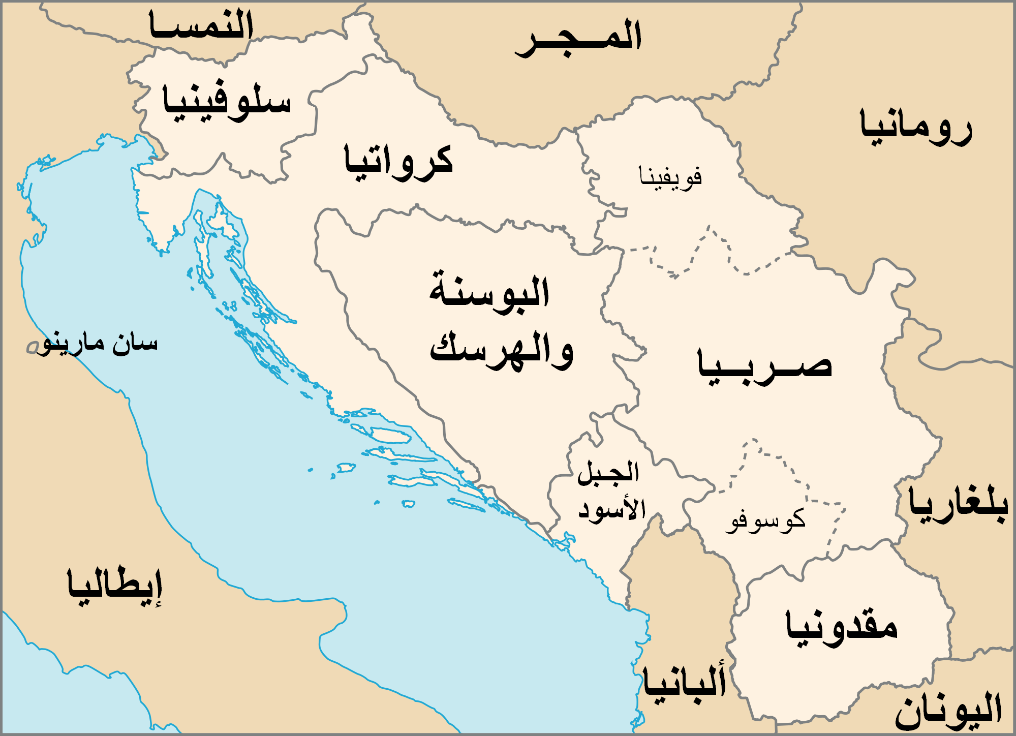 Translated from Image:Yugoslavia map norwegian.svg by User: Faris knight to Arabic.